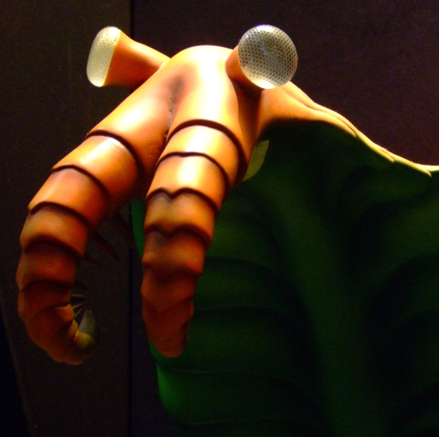 Anomalocaris model, Natural History Museum, London. Reconstruction of Anomalocaris, emphasising the great appendages.